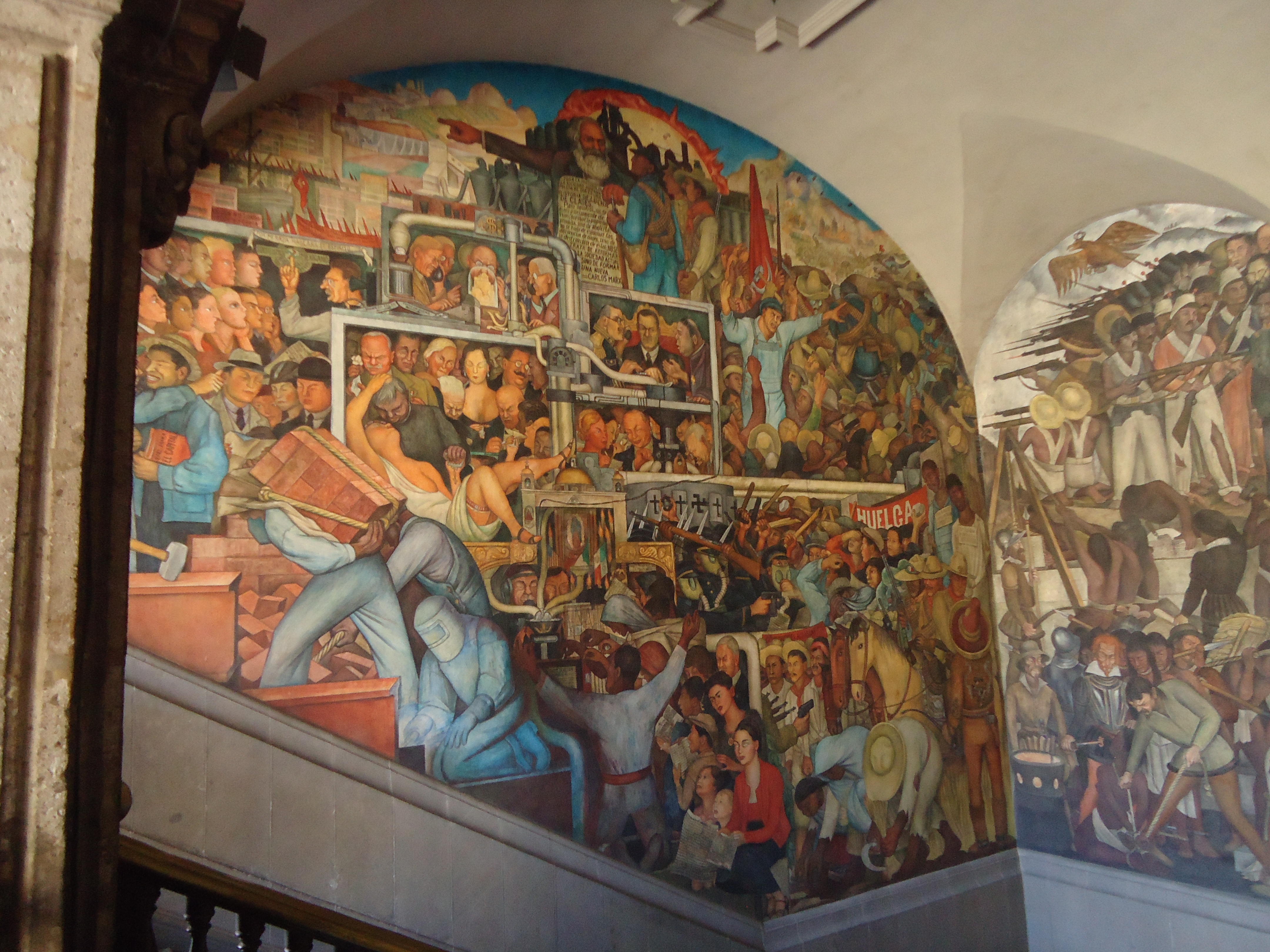 Mexico Today and Tomorrow by Diego Rivera in the Palacio Nacional